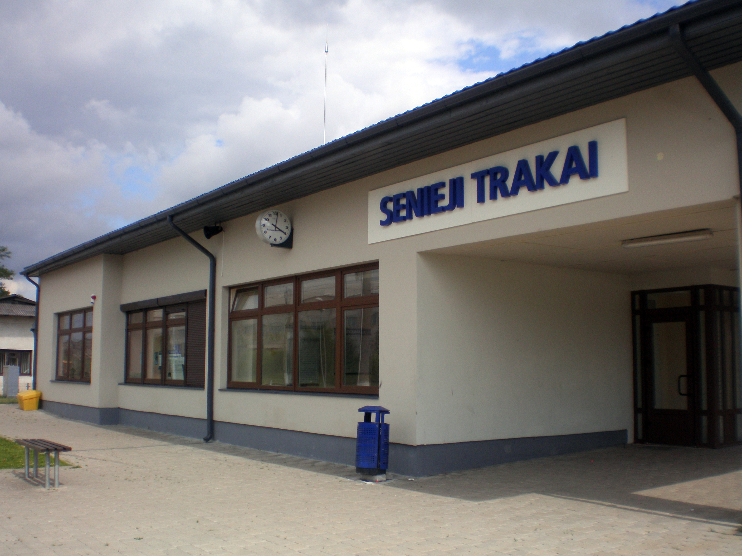 The train station of Senieji Trakai